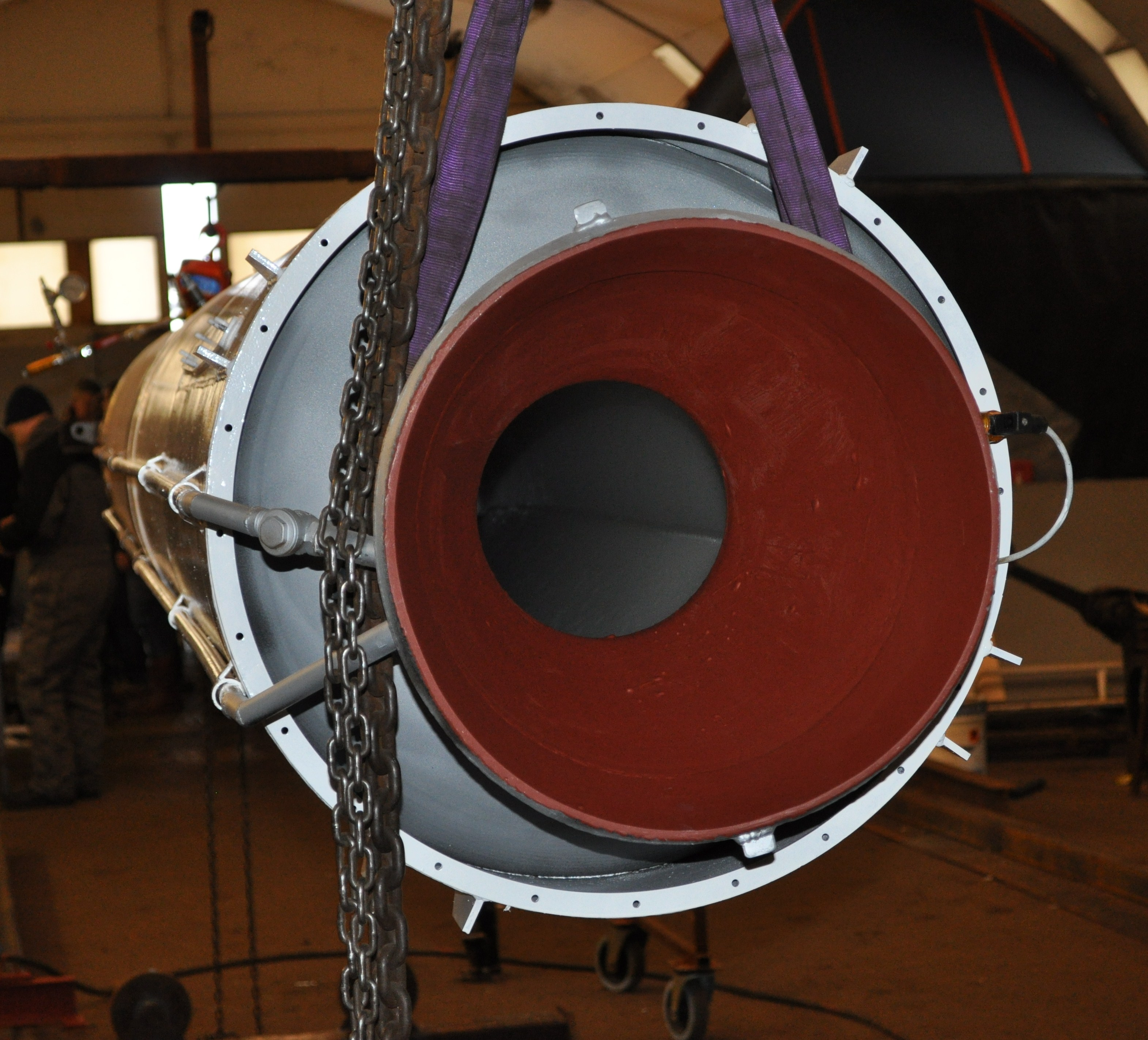 Graphite nozzle of the half-length (4 m) version of the HEAT booster (Hybrid Exo Atmospheric Transporter). The nozzle is not veerable. The half-length HEAT is expected to launch a crash test dummy to 40 km altitude in June 2010. The full-length HEAT should be able to send one person up in space in a parabolic flight.